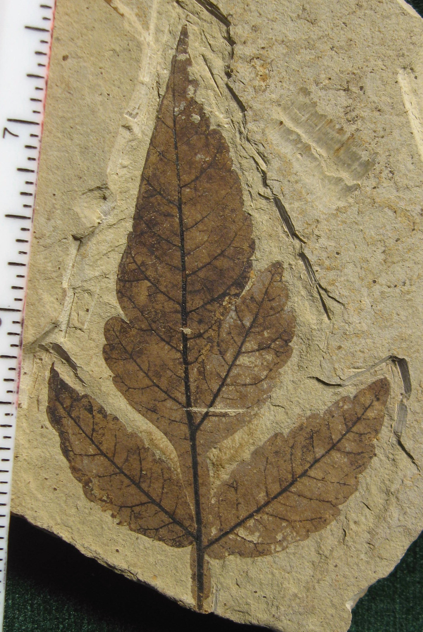 ~12cm tall compound leaf from an extinct sumac hybrid. Rhus sp. ~49.5 million years old. Early Ypresian, Klondike Mountain Formation, Republic, Ferry County, Washington, USA. Stonerose Interpretive Center specimen SR 00-05-09.